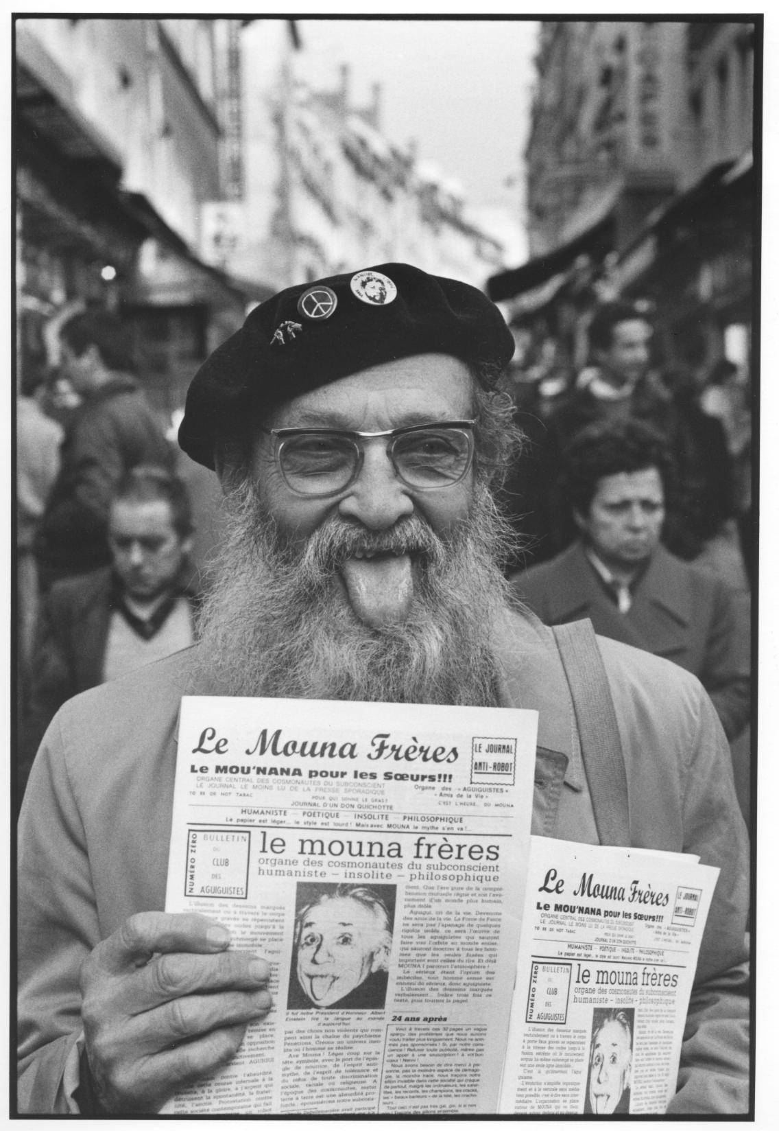 Mouna Aguigui in rue Mouffetard (Paris, France), photographed in 1988 by Olivier Meyer